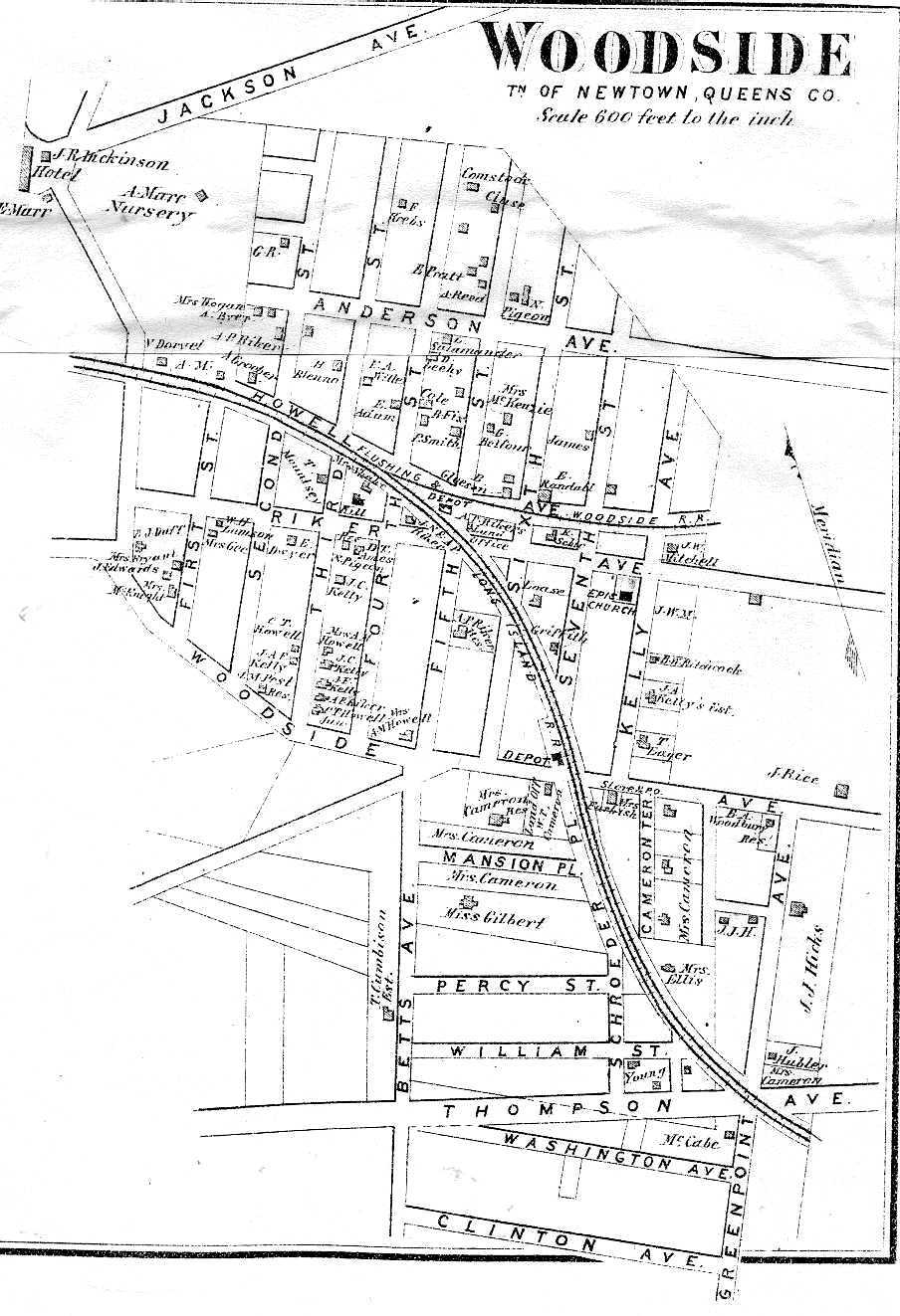 Map of Woodside. I obtained this from where it was labeled 1908. The NYPL labels it as 1873.